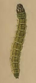 Stainton’s Natural History of the Tineina (1855–1873): Depressaria absynthiella